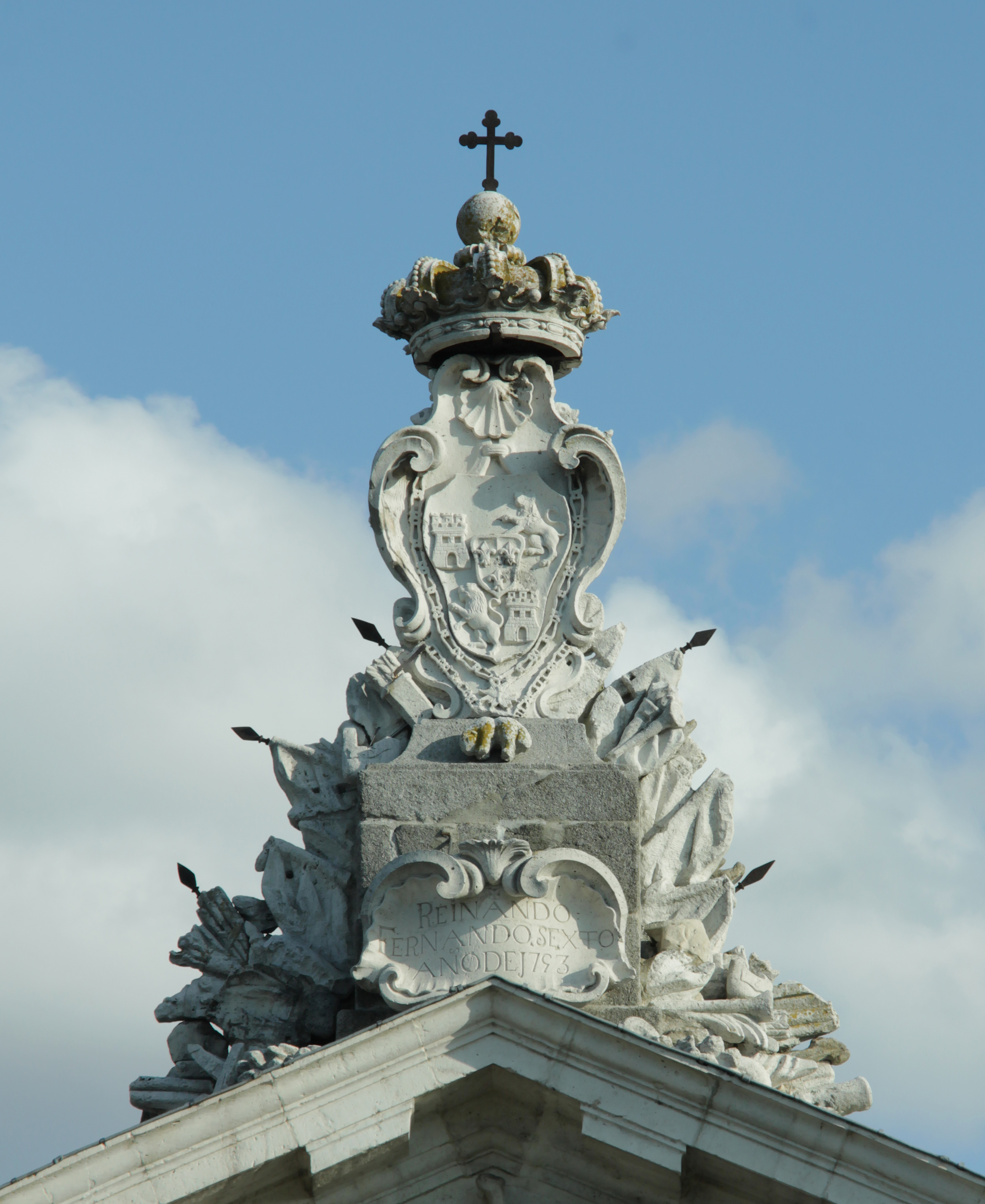 Relief showing the lesser Royal Arms of Spain.